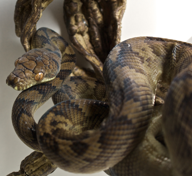 Halmahera Scrub Python (Morelia tracyae). (This specimen lives in captivity) Photography by Matt